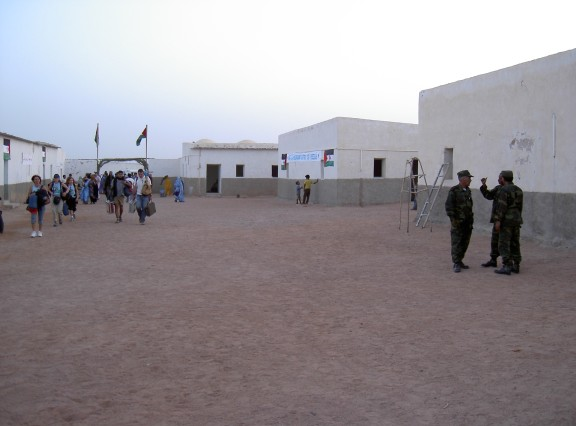 Tifariti, Liberated Territories, Sahrawi Arab Democratic Republic.